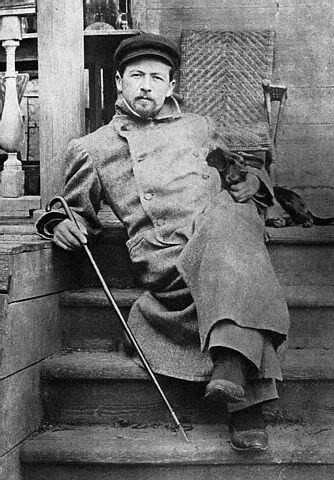 Anton Chekhov at his home in Melikhovo with his dachshund Khina in 1897